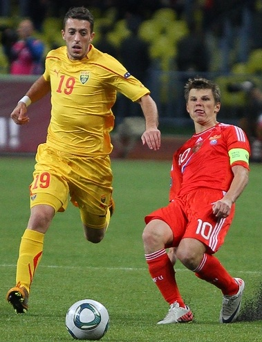 Agim Ibraimi(left) and Andrei Arshavin(right)